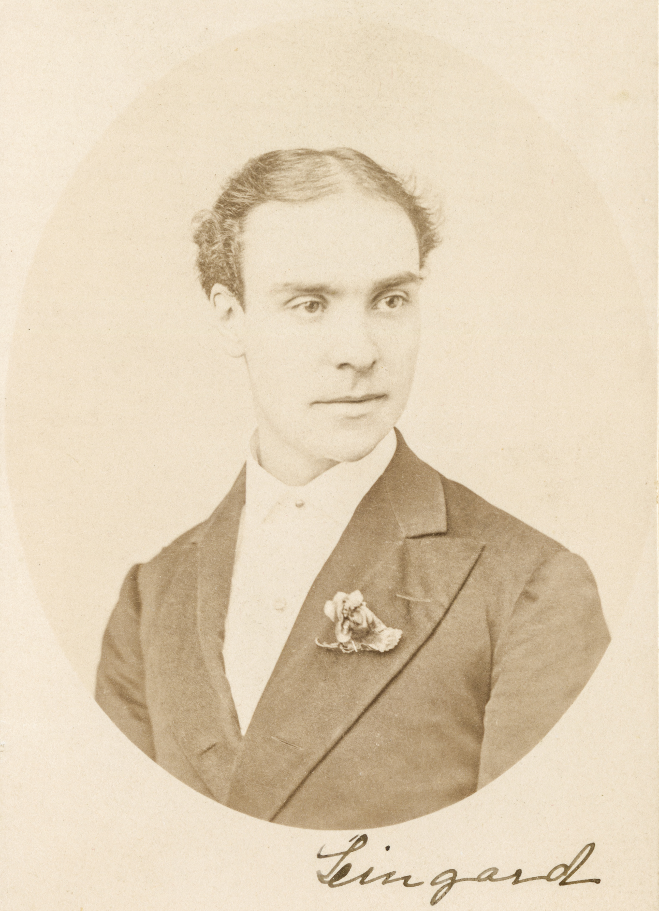 CDV of William Horace Lingard taken by J Gurney & Son at 707 Broadway NYC, c.1868